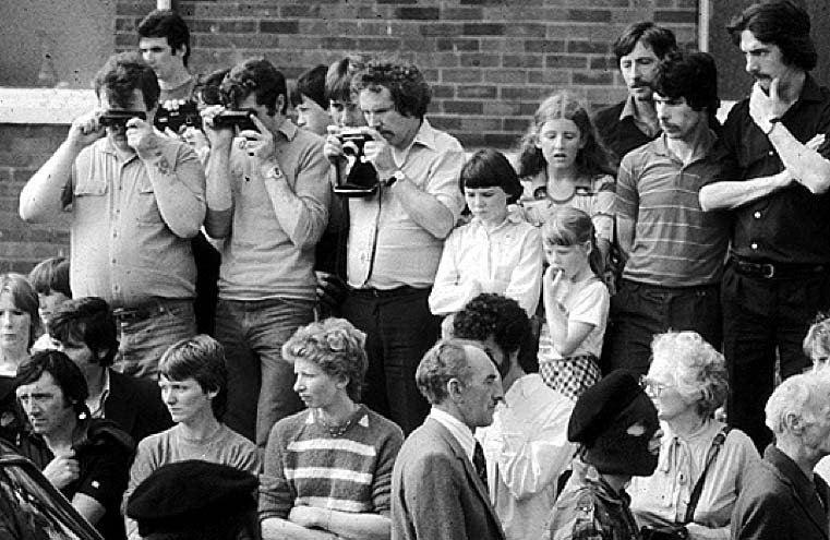 IRA funeral in Belfast, Northern Ireland.